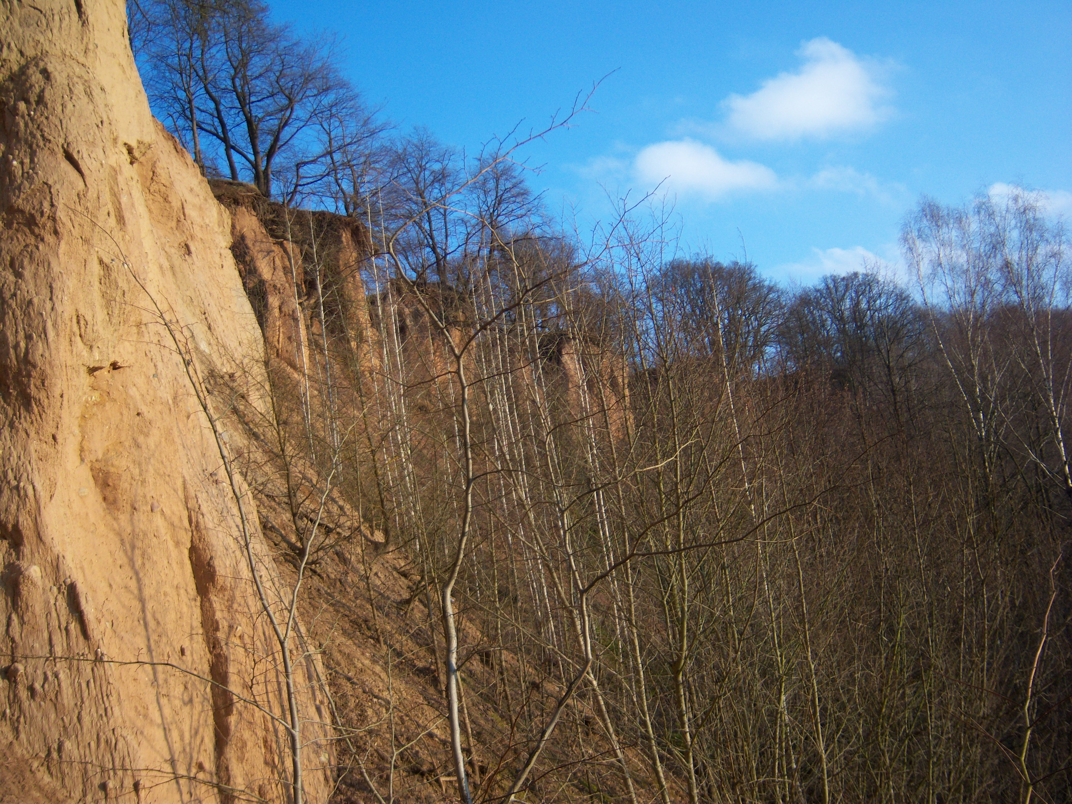 Jiesia River outcrop in Rokai, Kaunas, Lithuania